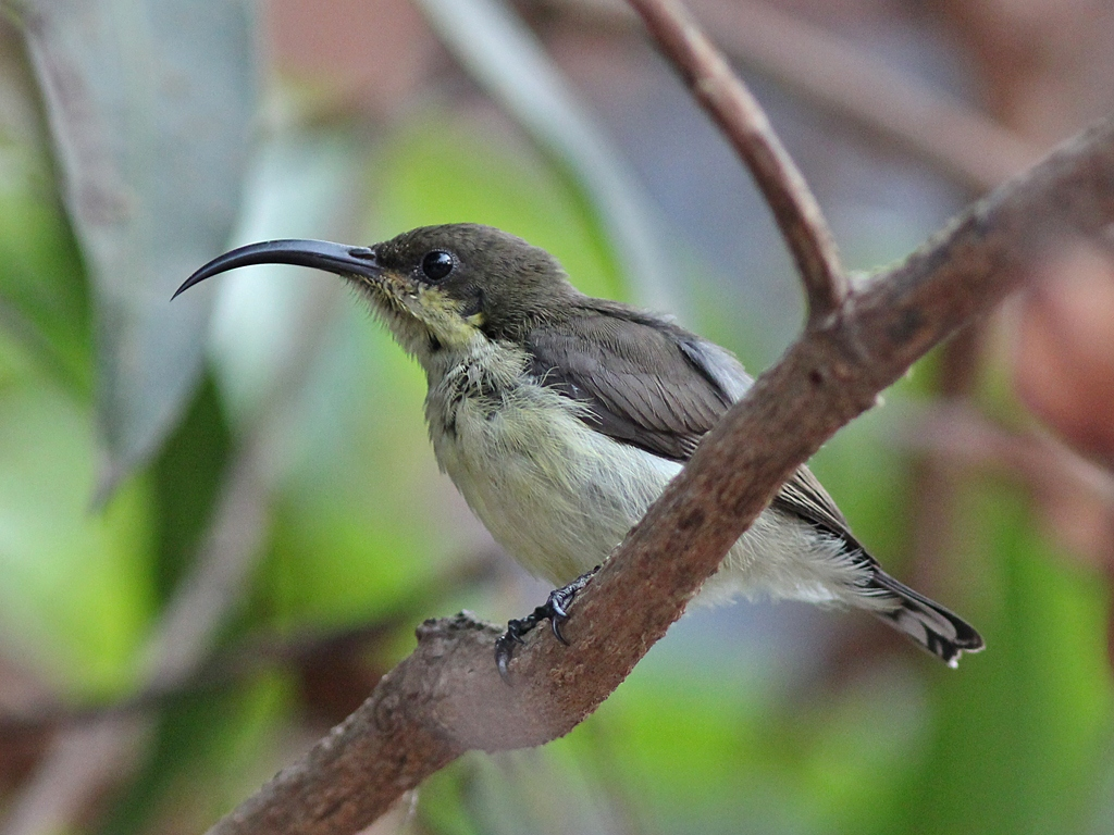 The female as seen here has yellow-grey upperparts and yellowish underparts.